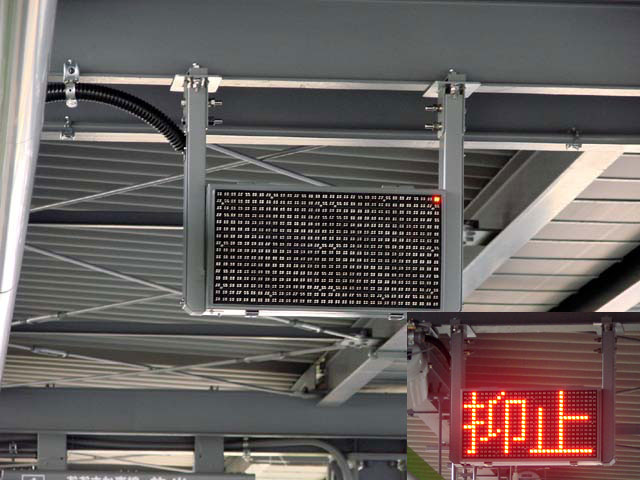 "Operation halt" sign indicator at a JR West station